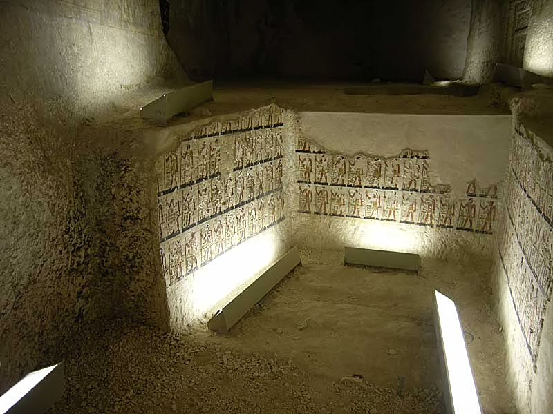 Meir, Serdab of the Tomb A2 of Pepy-Ankh, Egypt, View to the North